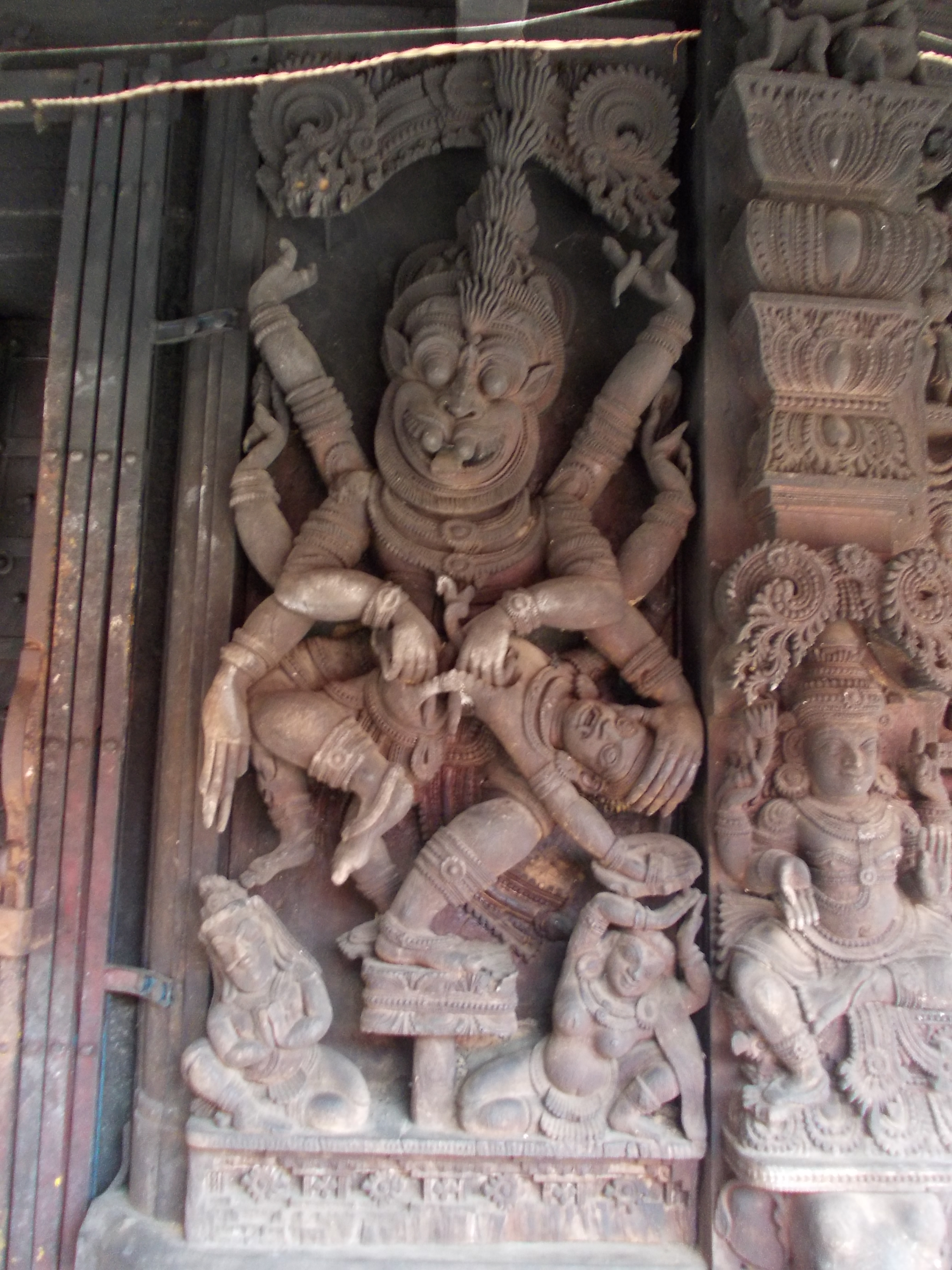 ഉഗ്രനരസിംഹം, കവിയൂർ മഹാദേവക്ഷേത്രത്തിലെ ദാരുശില്പം